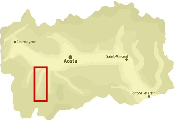 Position of the valley Val di Rhemes